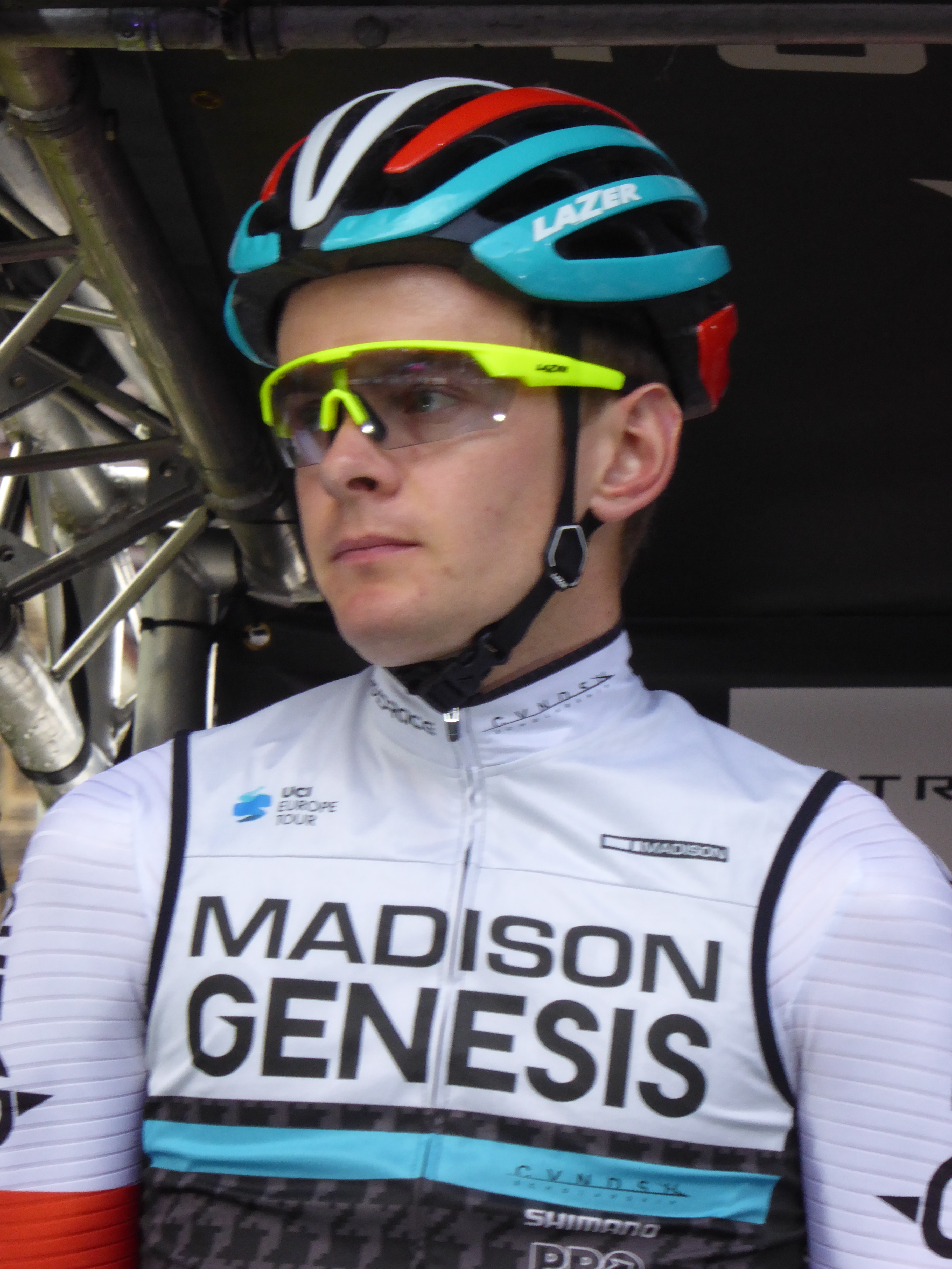 Richard Handley (Madison Genesis), prior to Round 9 of the Tour Series in Durham, on 27 May 2017.